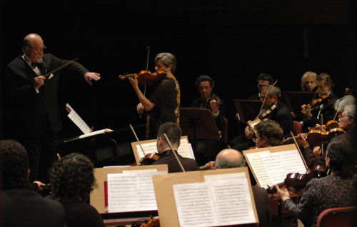 Maestro Pedro Ignacio Calderón and the Argentine National Symphony Orchestra.